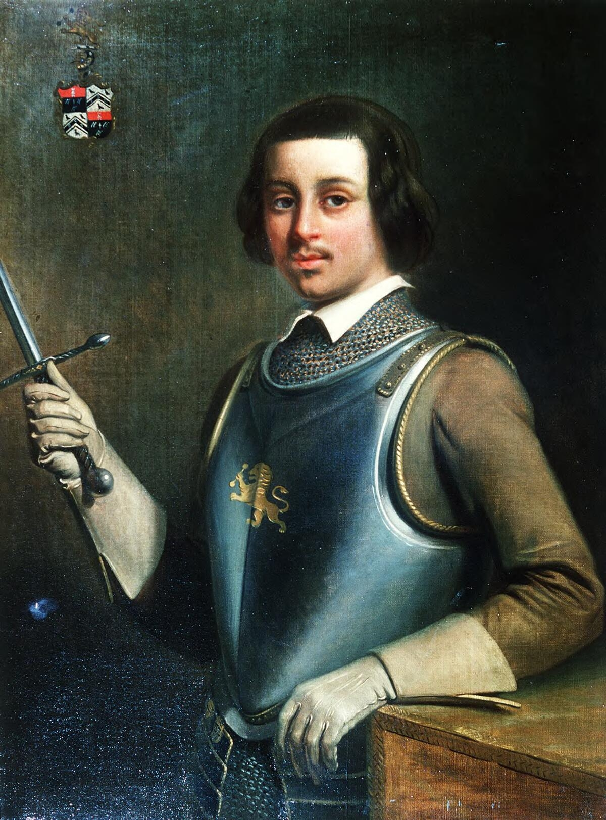 A painting from the Framed Works of Art collection at the National Library of wales.